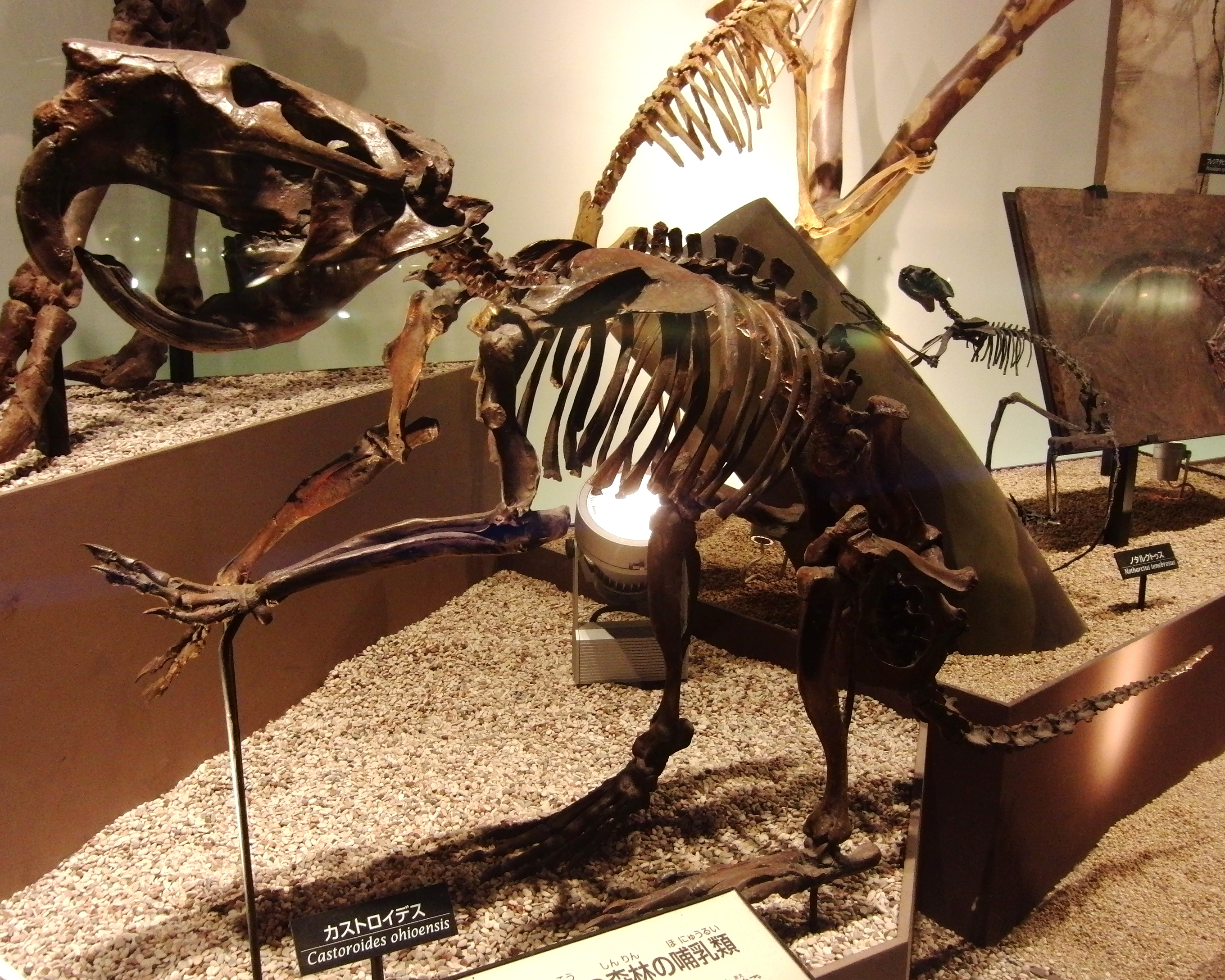 Skeleton of Giant beaver (Castoroides ohioensis). Exhibit in the National Museum of Nature and Science, Tokyo, Japan.